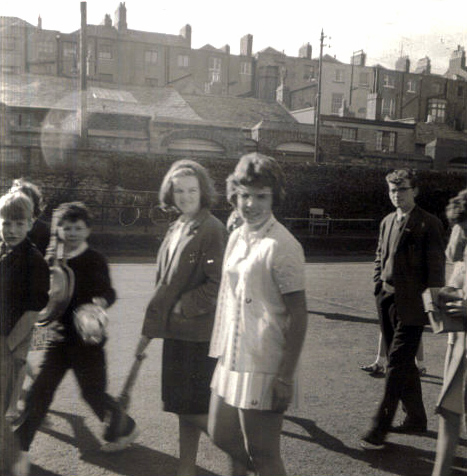 Snapshot of Billy Jean King during Irish Championships